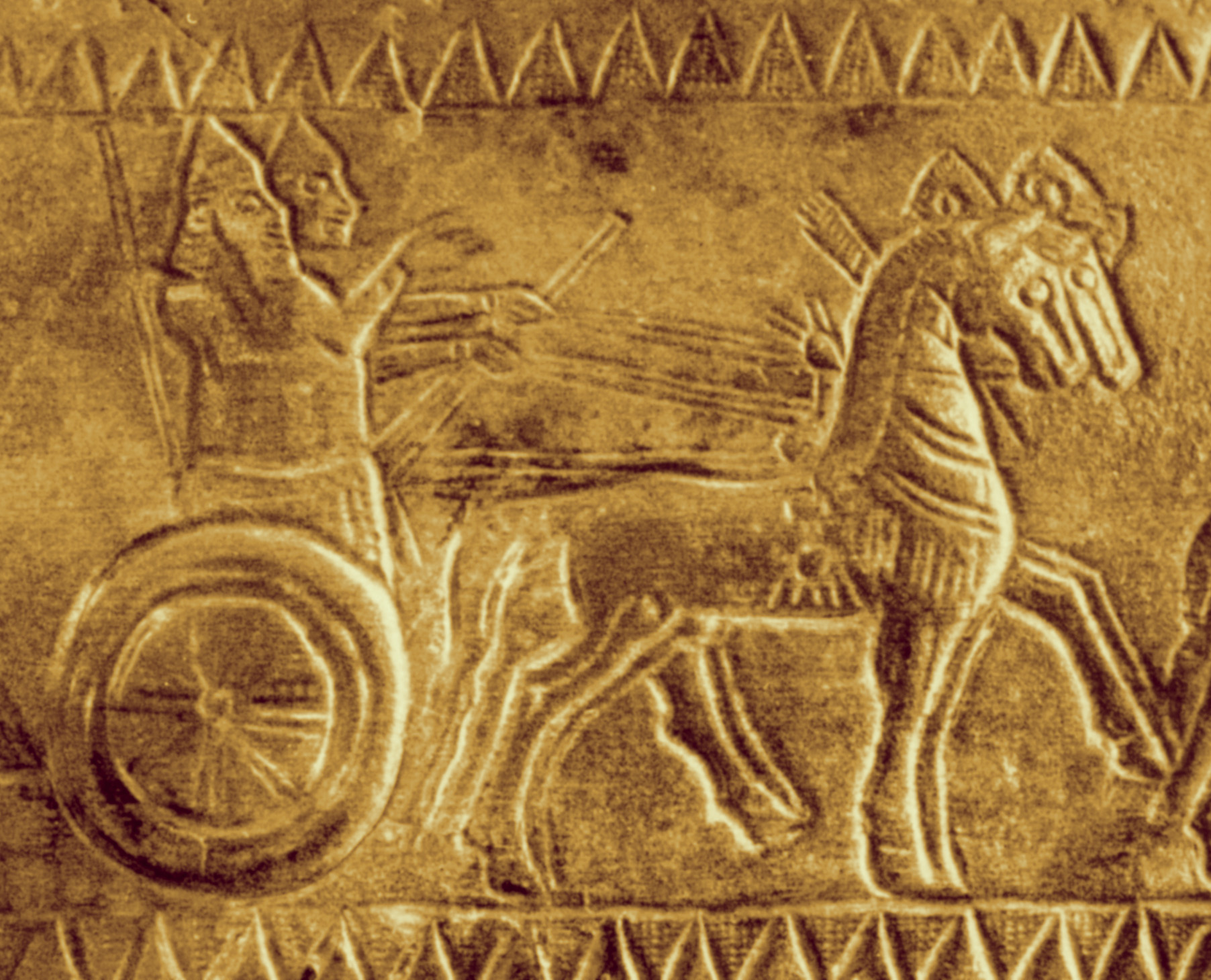 Drawing of a Urartian chariot on a bronze helmet.